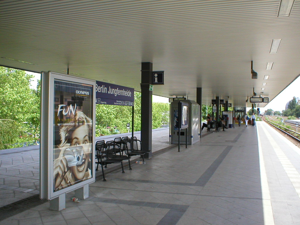 Platform of Berlin's suburban rail station Jungfernheide